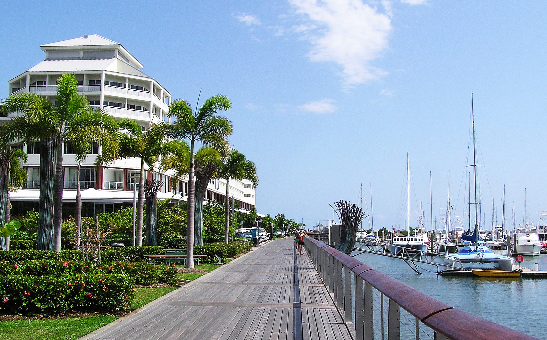 Cairns Port in Northern Queensland city Cairns